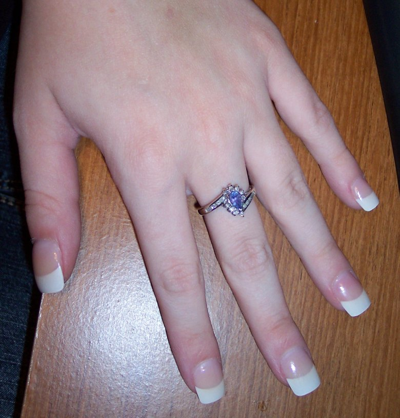 An example of a French Manicure, acrylic nails with white tips.